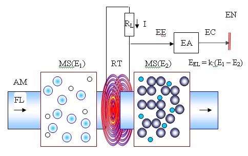 Molecular power 44. Generalized scheme of molecular system of the molecular wind power